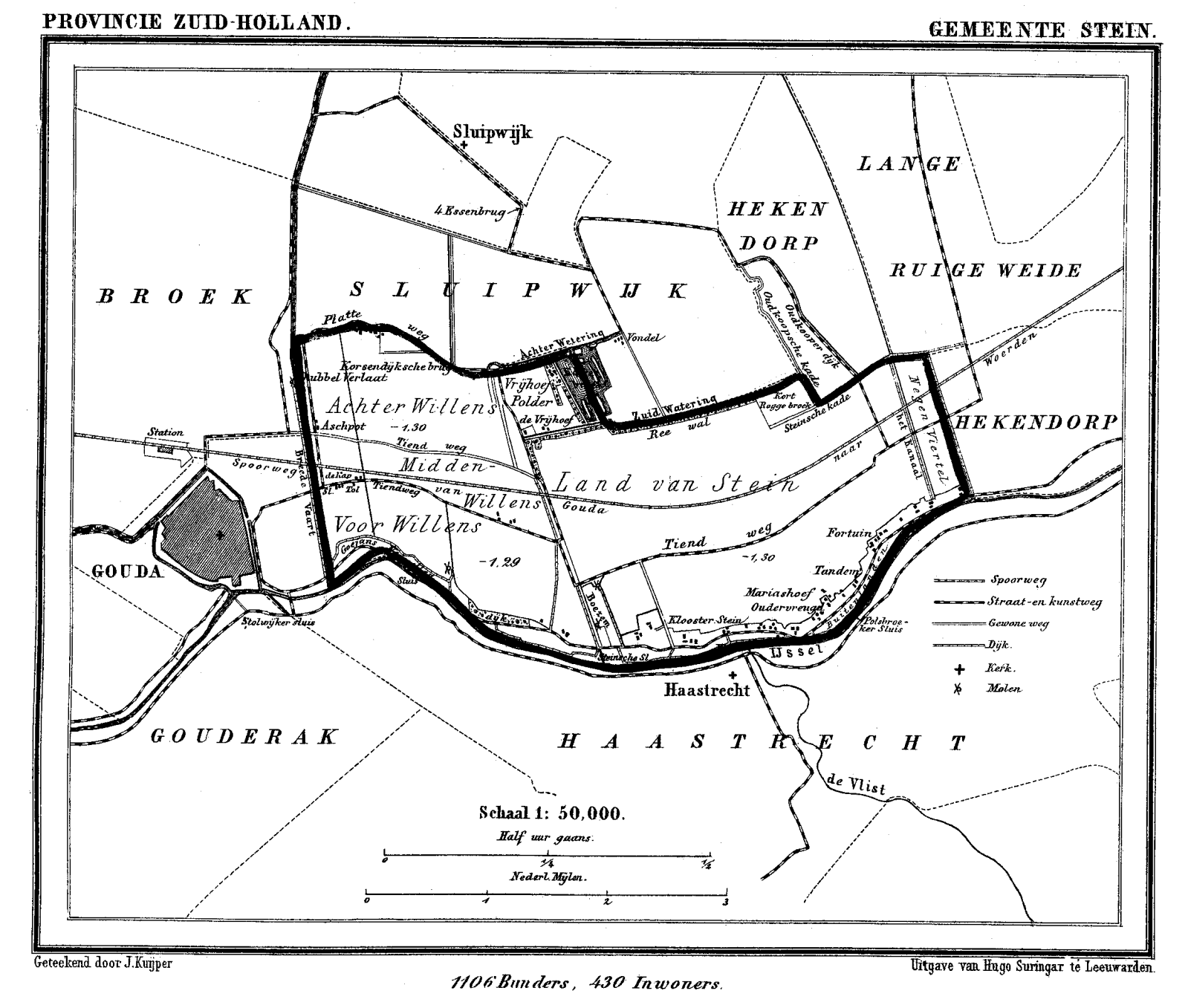 Historic map of Stein (now part of municipality Vlist), South Holland, the Netherlands